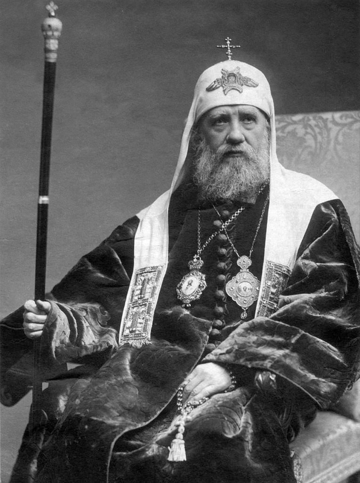 Saint Tikhon of Moscow (1865 – 1925):the Patriarch of Moscow and All Russia of the Russian Orthodox Church during the early years of the Soviet Union, 1917 through 1925